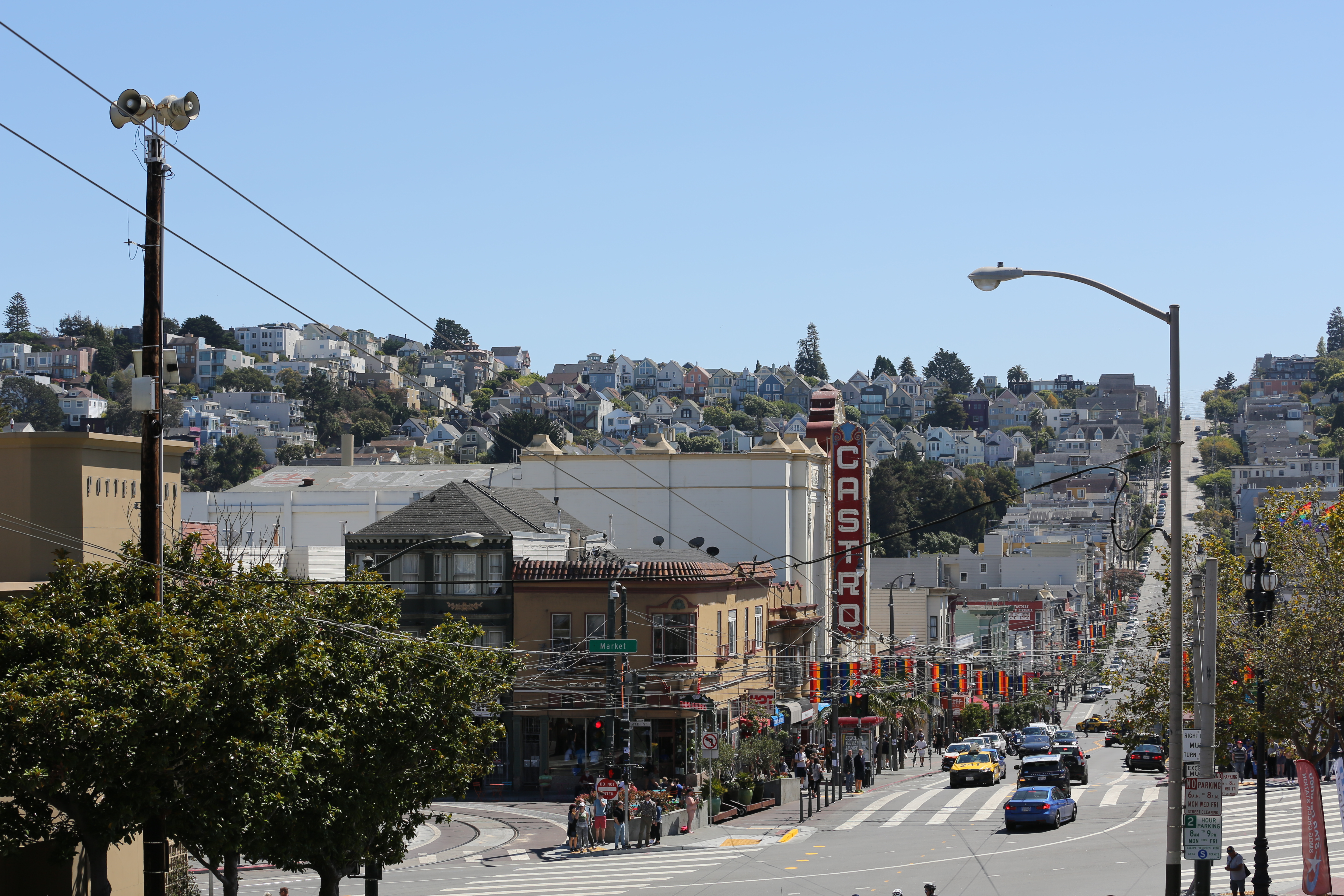 The Castro with Castro Theatre (TK1)